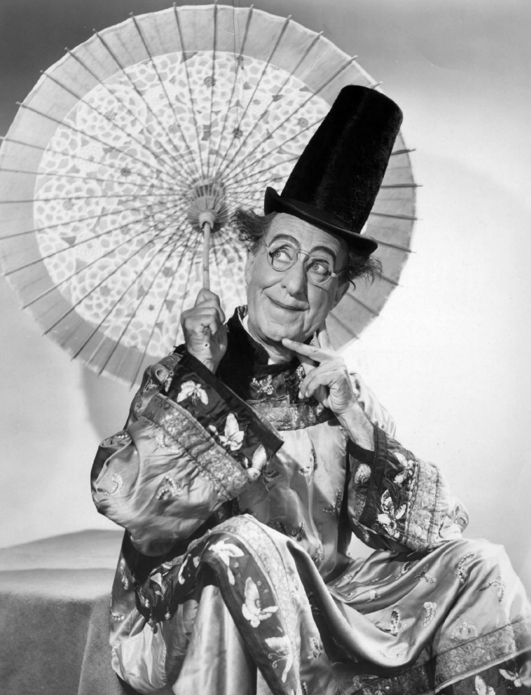 Photo of Ed Wynn from the television program All Star Revue.